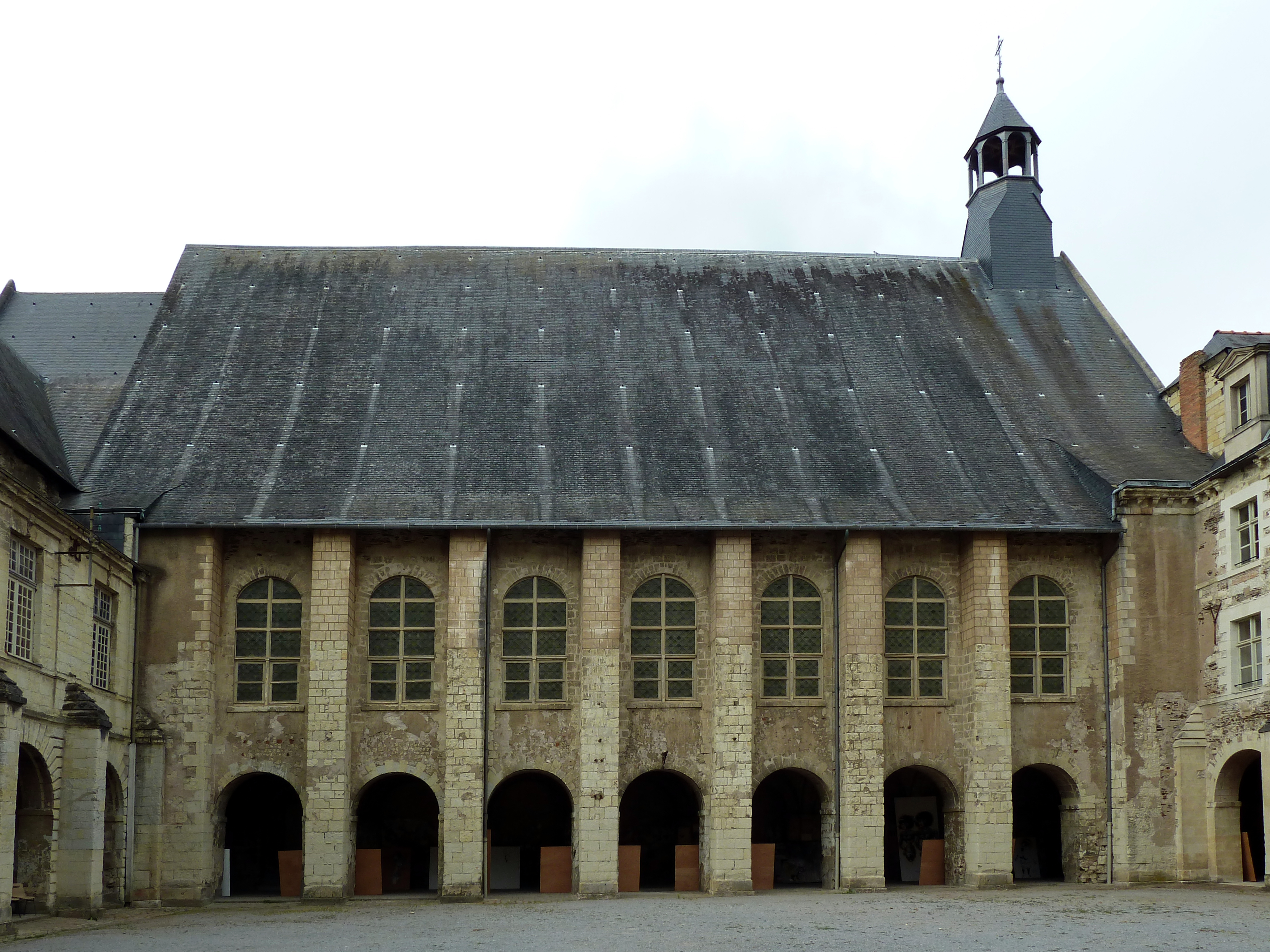 Church of the Abbey of Ronceray, Angers, Maine-et-Loire, PAys de la Loire, France.